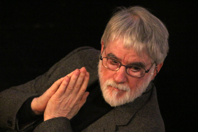 János Kende a Cinematographers from Hungary